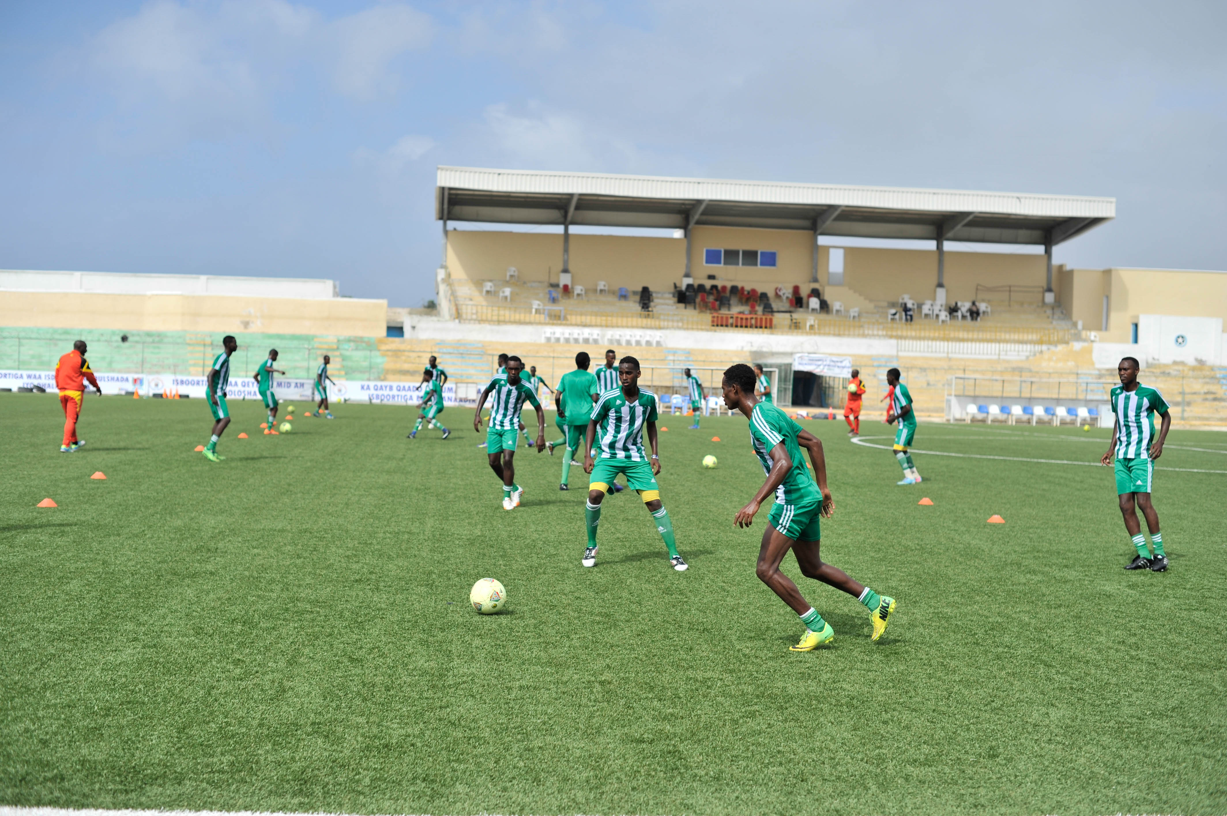 The Somalia national soccer team seen doing drills during a training session at Banadir stadium in Mogadishu on August 29 2015, in preparation for the upcoming World Cup Qualifiers. Sports in Somalia is recovering as a result of the relative peace and progress witnessed in the country.